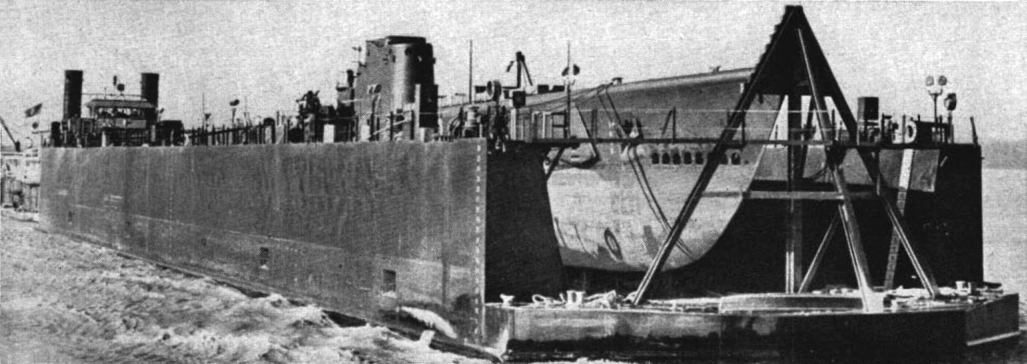 The U.S. Navy submarine USS Peto (SS-265) in a floating drydock on the Mississippi River. Peto was laid down on 18 June 1941 by the Manitowoc Shipbuilding Company, Manitowoc, Wisconsin (USA). She was launched on 30 April 1942 and commissioned on 21 November 1942. Late in December 1942, Peto decommissioned, was loaded on a floating drydock, and departed Manitowoc for New Orleans, Louisiana (USA), the first submarine to traverse the mid-western waterways to reach New Orleans and the sea from the building yards. The ship recommissioned, completed fitting out and shakedown, sailed for the Panama Canal and arrived Brisbane, Australia on 14 March 1943.